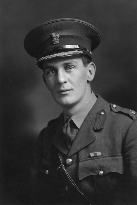 Australian soldier and future politician Geoffrey Street in his military uniform